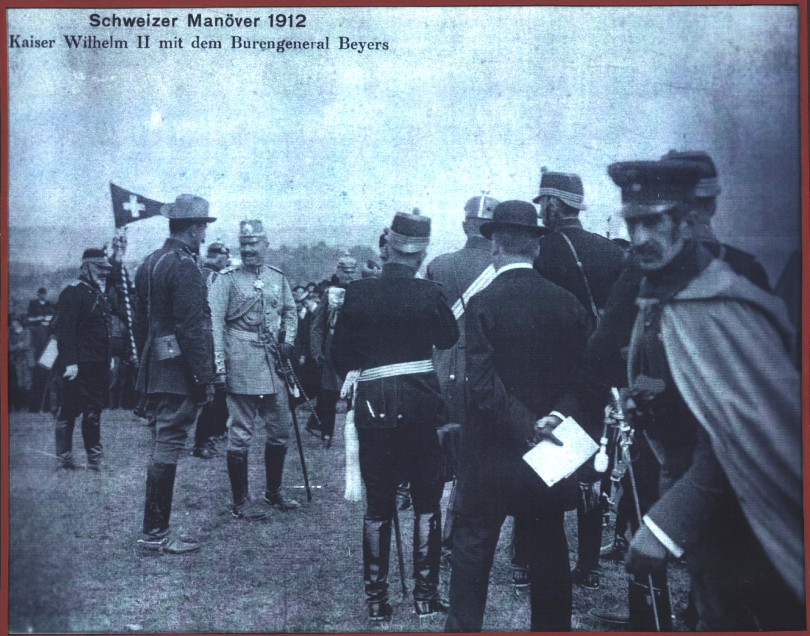 Juan Amadeo Baldrich with Kaiser William II